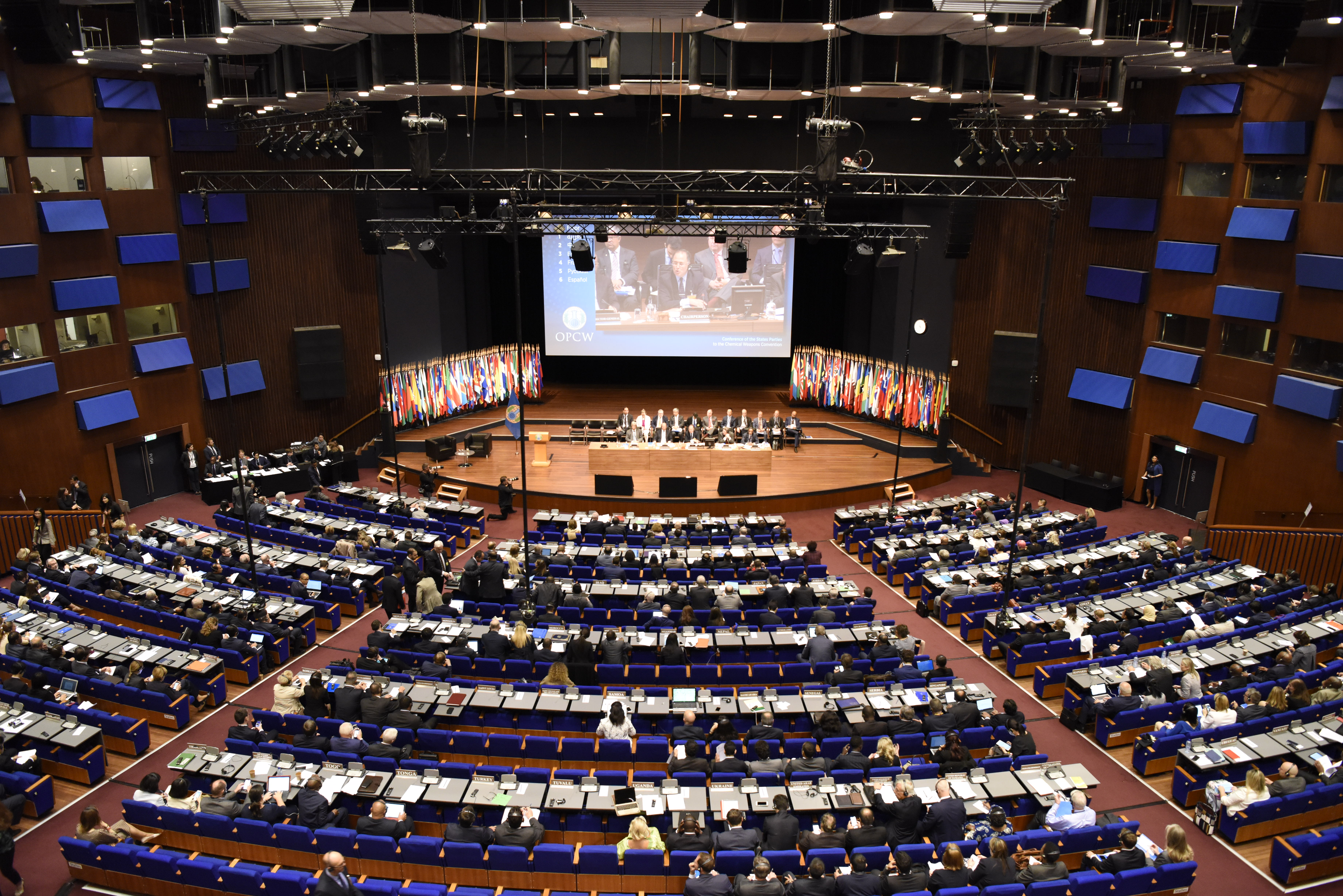 The Fourth Special Session of the Conference of States Parties to the Chemical Weapons Convention. The Fourth Special Session Conference is held at the World Forum, The Hague, the Netherlands, from 26 to 28 June 2018.